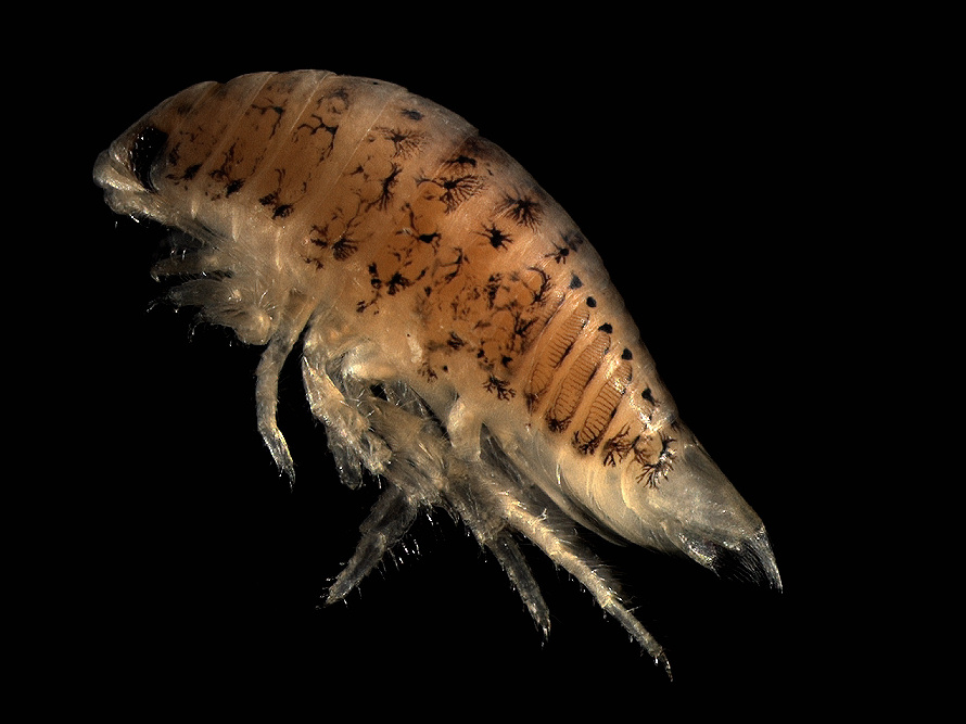 Speckled sea louse, an intertidal marine isopod from the Belgian Coast 2005.Note the chromophores which give the sea louse its typical speckled appearance.Camera mounted on a Zeiss Stemi C-2000 binocular microscope.Length: ~4 mm.